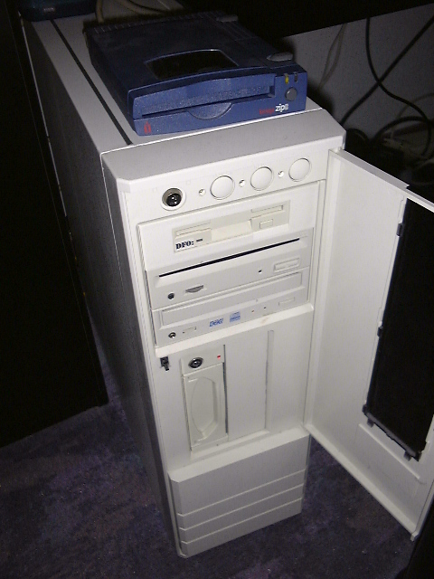 Escom Amiga 4000T computer with built-in floppy disk drive, "slot-in" CD-ROM drive (Pioneer), CD-RW CD writer (Yamaha CRW4260T SCSI) and removable harddisk (vertically mounted). An external Iomega Zip-Drive (SCSI) sits on top.